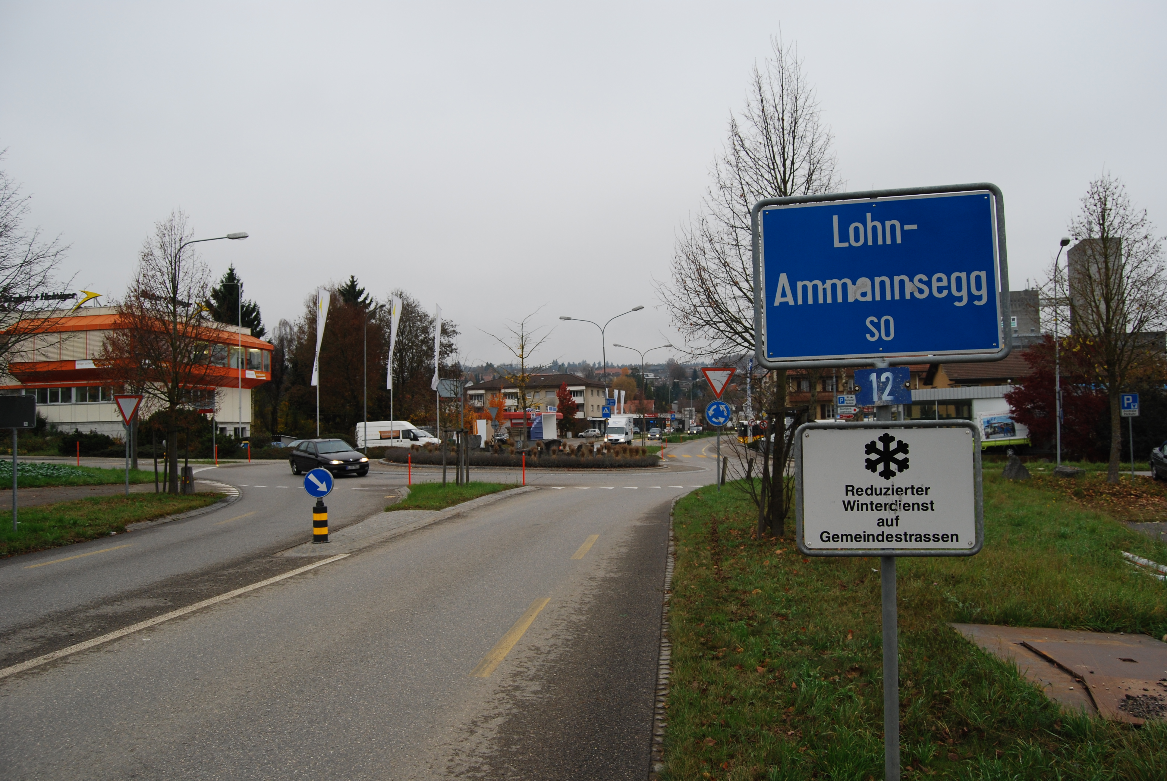 Lohn-Ammannsegg, canton of Solothurn, Switzerland